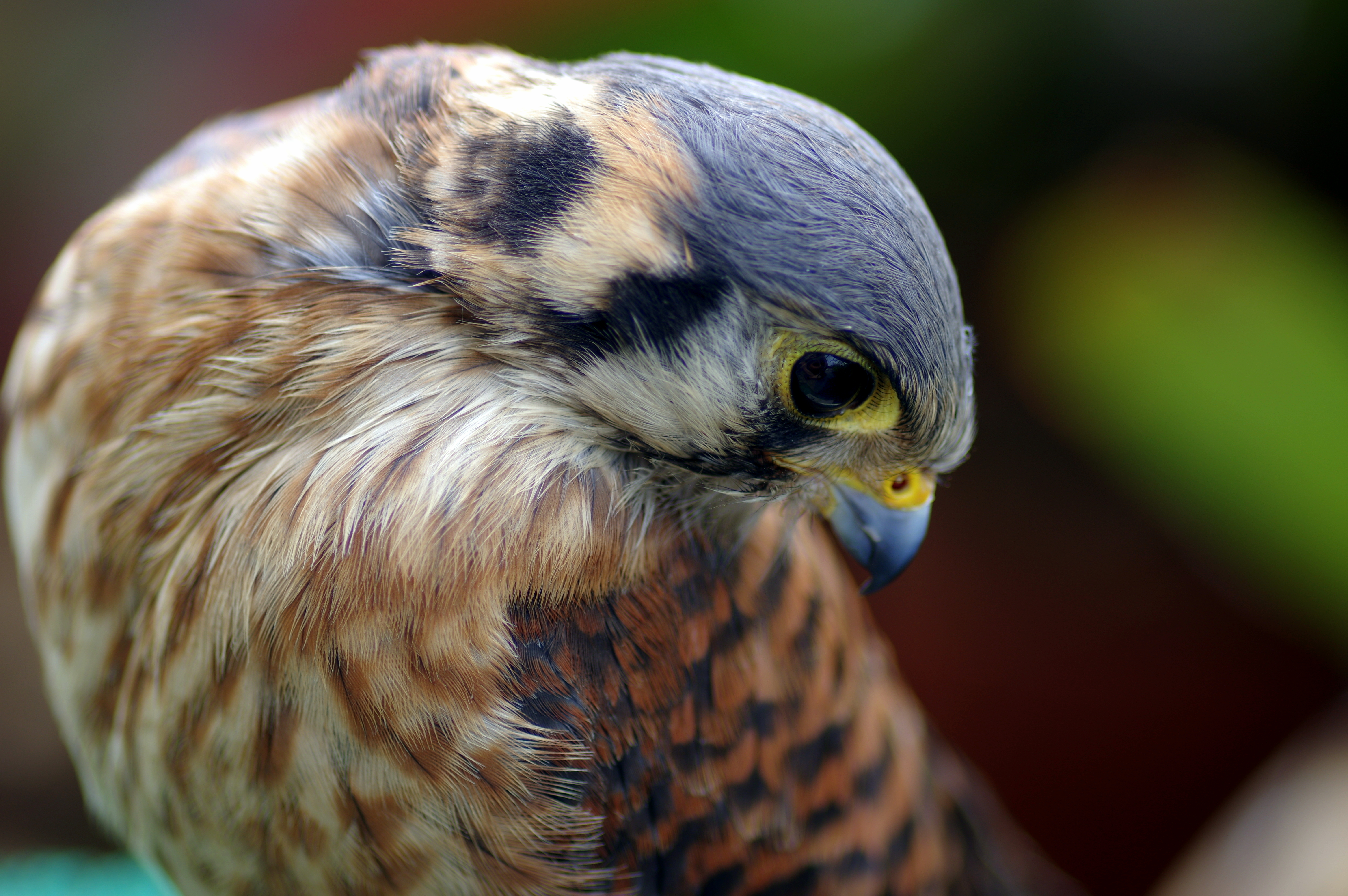 American Kestrel